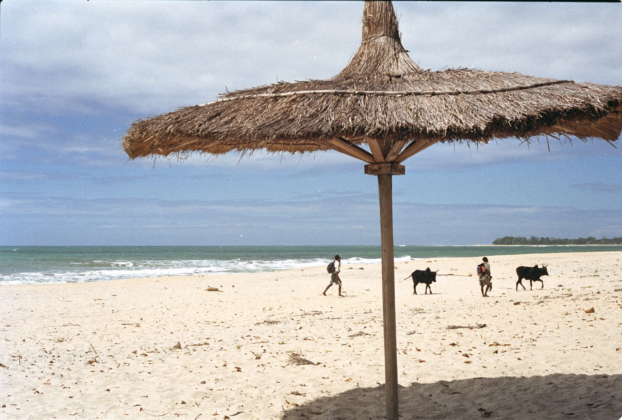 Photo by Jonathan Talbot, World Resources Institute, 2001. Boys tending cows on the beach at Sambava, Madagascar.